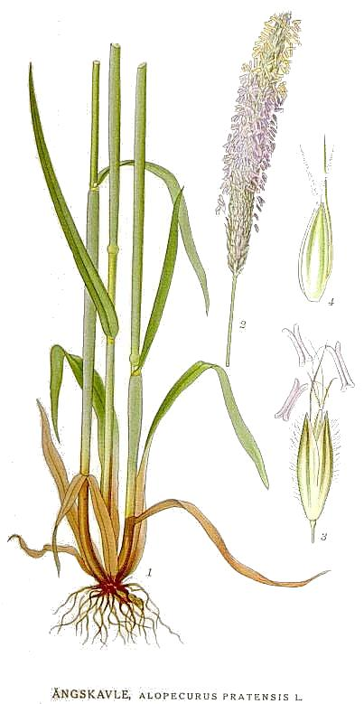 Alopecurus pratensis L. Original Description "Ängskavle", Alopecurus pratensis L.